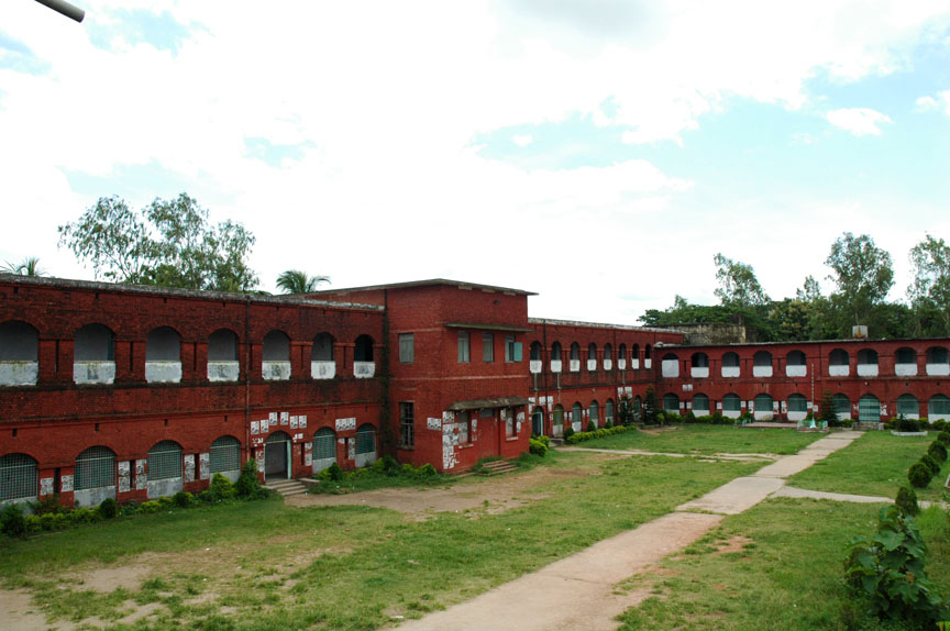 The Chittagong Collegiate School is a notable secondary school in Chittagong.